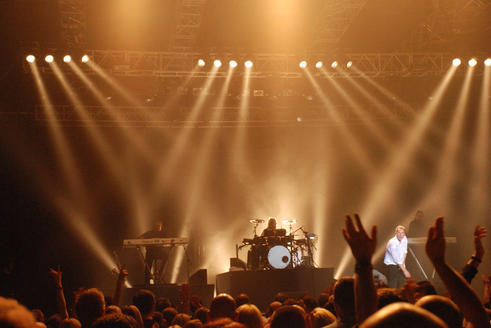 Taken at The Summer Pops at Aintree Pavillion, Liverpool a couple of years ago. OMD Are one of my favourite bands of the 80's and Andy McCluskey only lives about 7 miles away from me. They are probably one of the best bands Wirral has ever produced. Andy is from Meols and Paul is from Greasby. They had huge success in the 80's which continued right into the 1990's. Andy McCluskey wrote songs for and managed Atomic Kitten (Yes I have photographed them too!!). When Atomic split up Andy decided to reform OMD and go on tour again - great move Andy!!!! They are on tour again in October and are playing in Liverpool at the New Liverpool Echo Arena (3 October 2008).